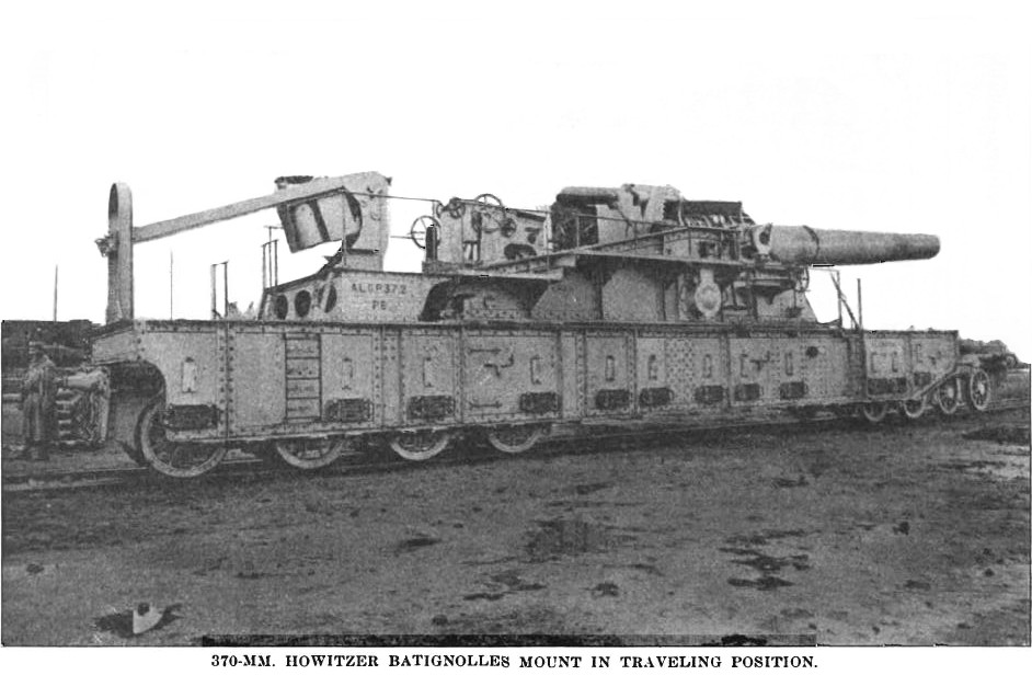 Photograph of French 370-mm howitzer on Batignolles railway mounting, in traveling position.